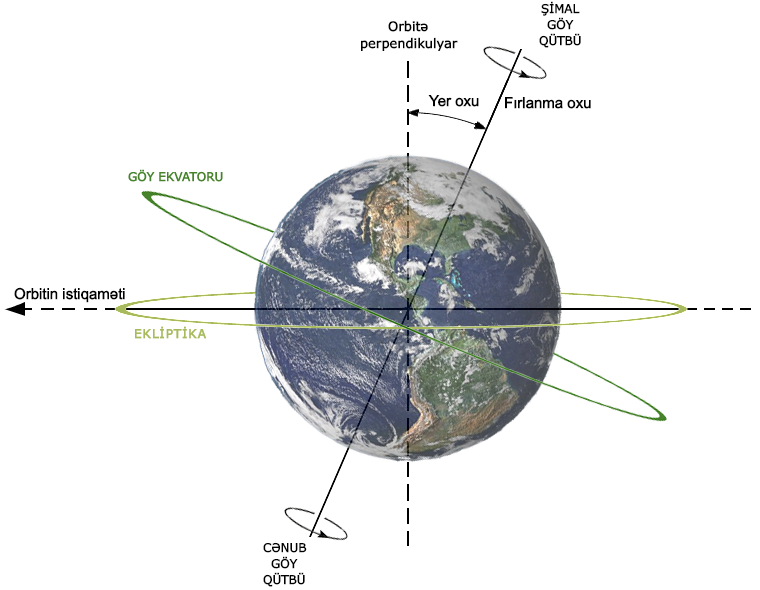 Description of relations between Axial tilt (or Obliquity), rotation axis, plane of orbit, celestial equator and ecliptic